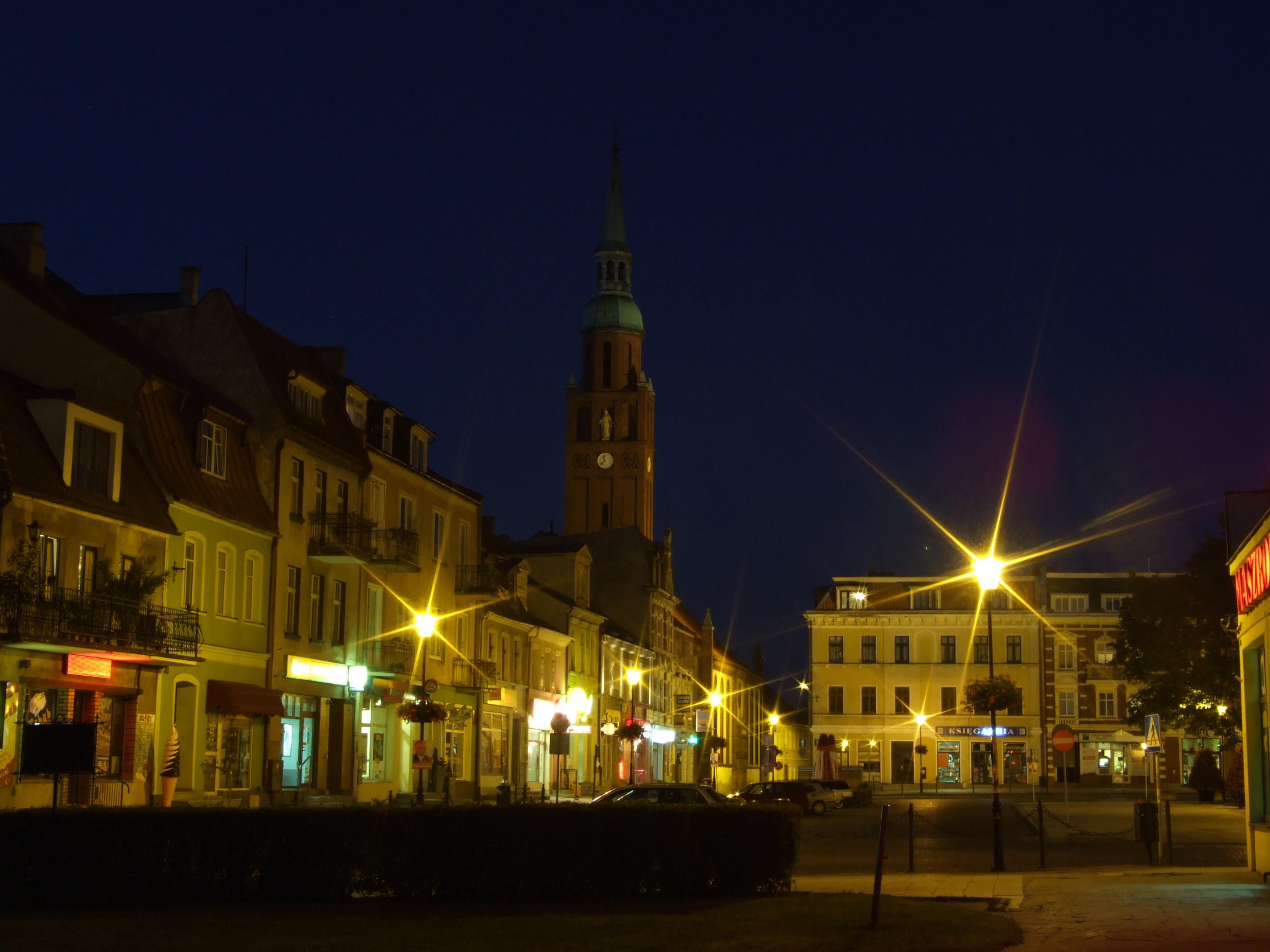 Main square (Rynek) in Starogard Gdański; northern half. Pomorskie voivodship, Poland